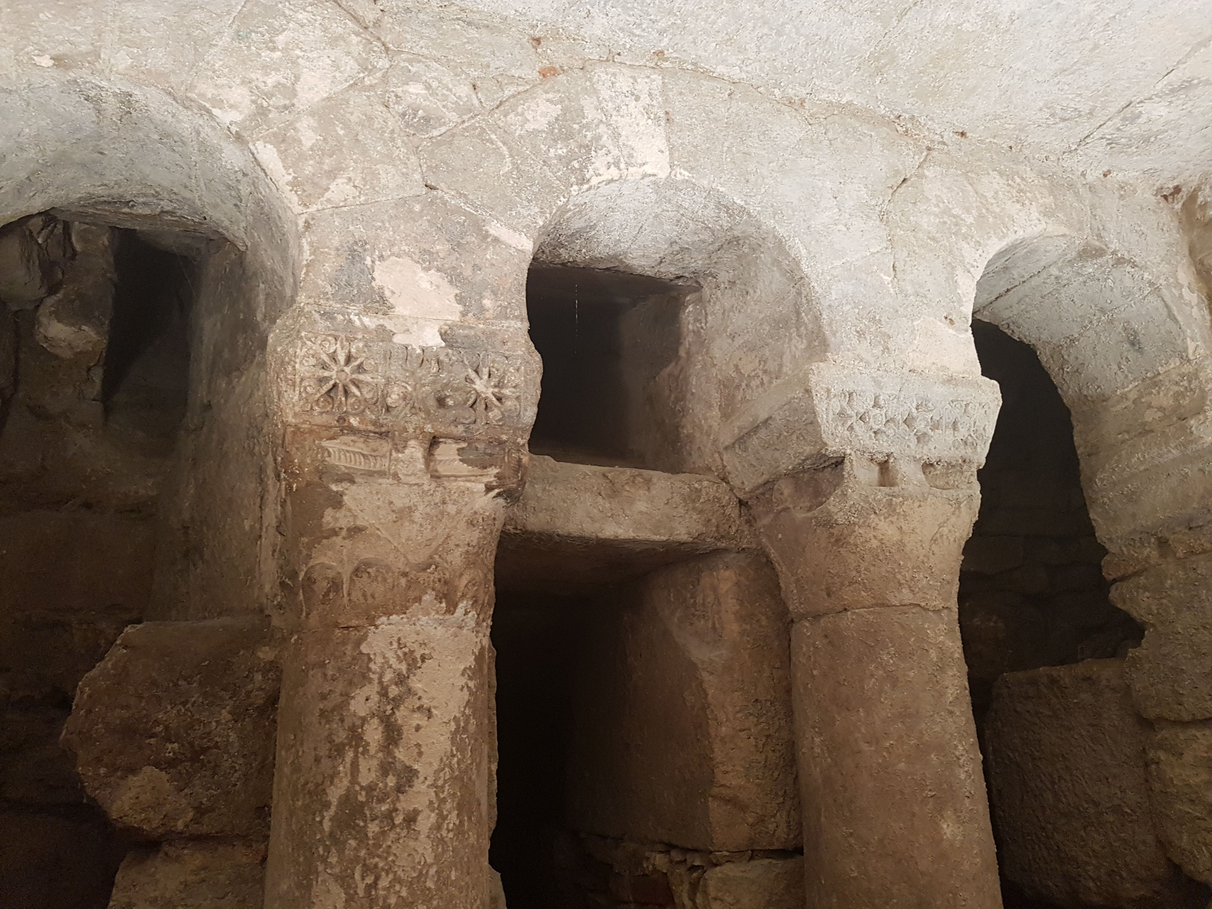 Crypt of San Antolín, Cathedral_of_Saint Antoninus (Palencia, Castile and Leon).